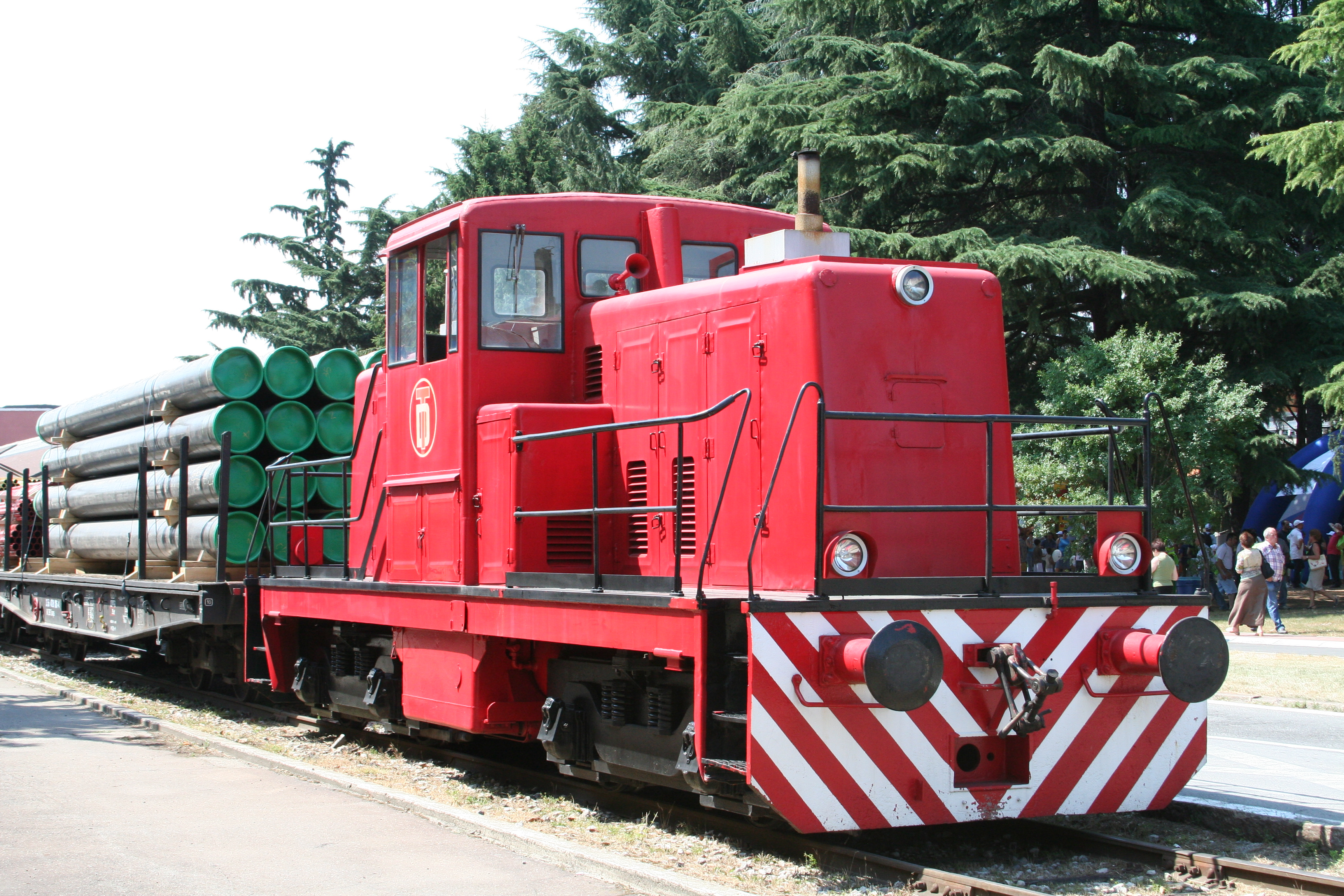 Draisine presso Soc. Tenaris Dalmine - GECO IX